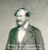 William Cole, 3rd Earl of Enniskillen (1807-1886)